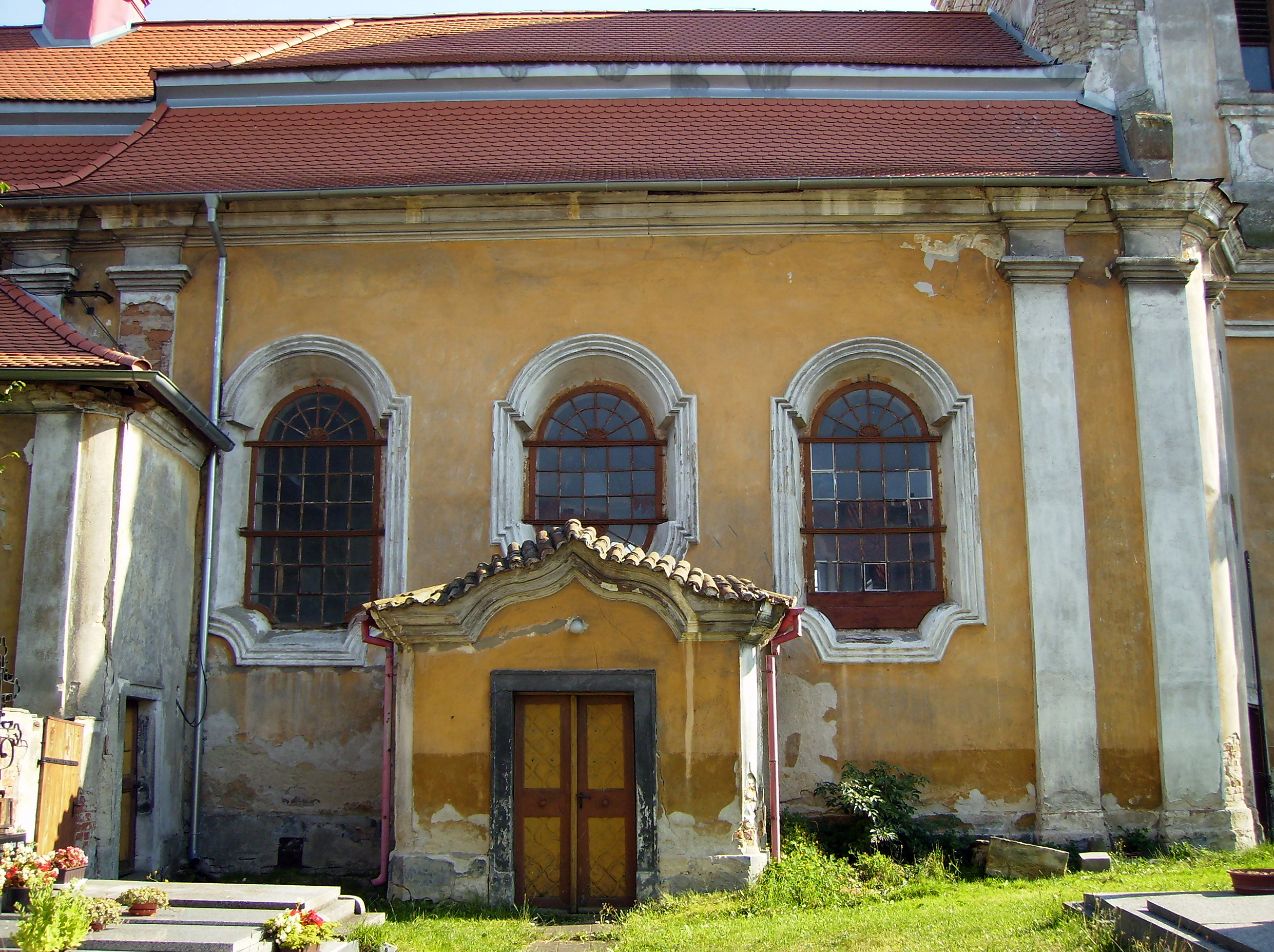 Windows of St Wenceslas church in Hrubý Jeseník, Nymburk District, Czech Republic